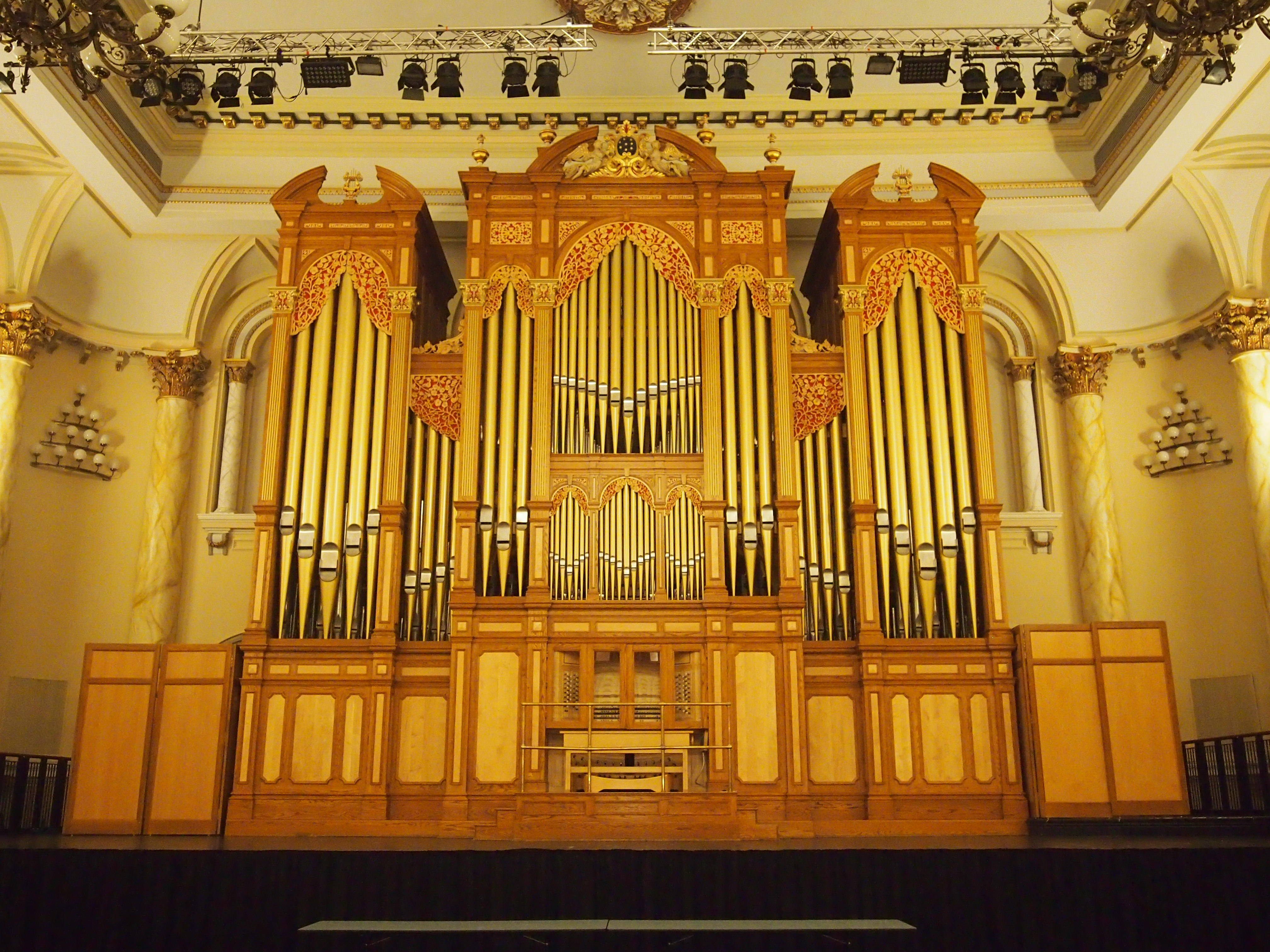 Pipe organ, Adelaide Town Hall, South Australia, manufactured by J.W. Walker and Sons, of Brandon, Suffolk, England and installed in 1989. Original filename = P5304668